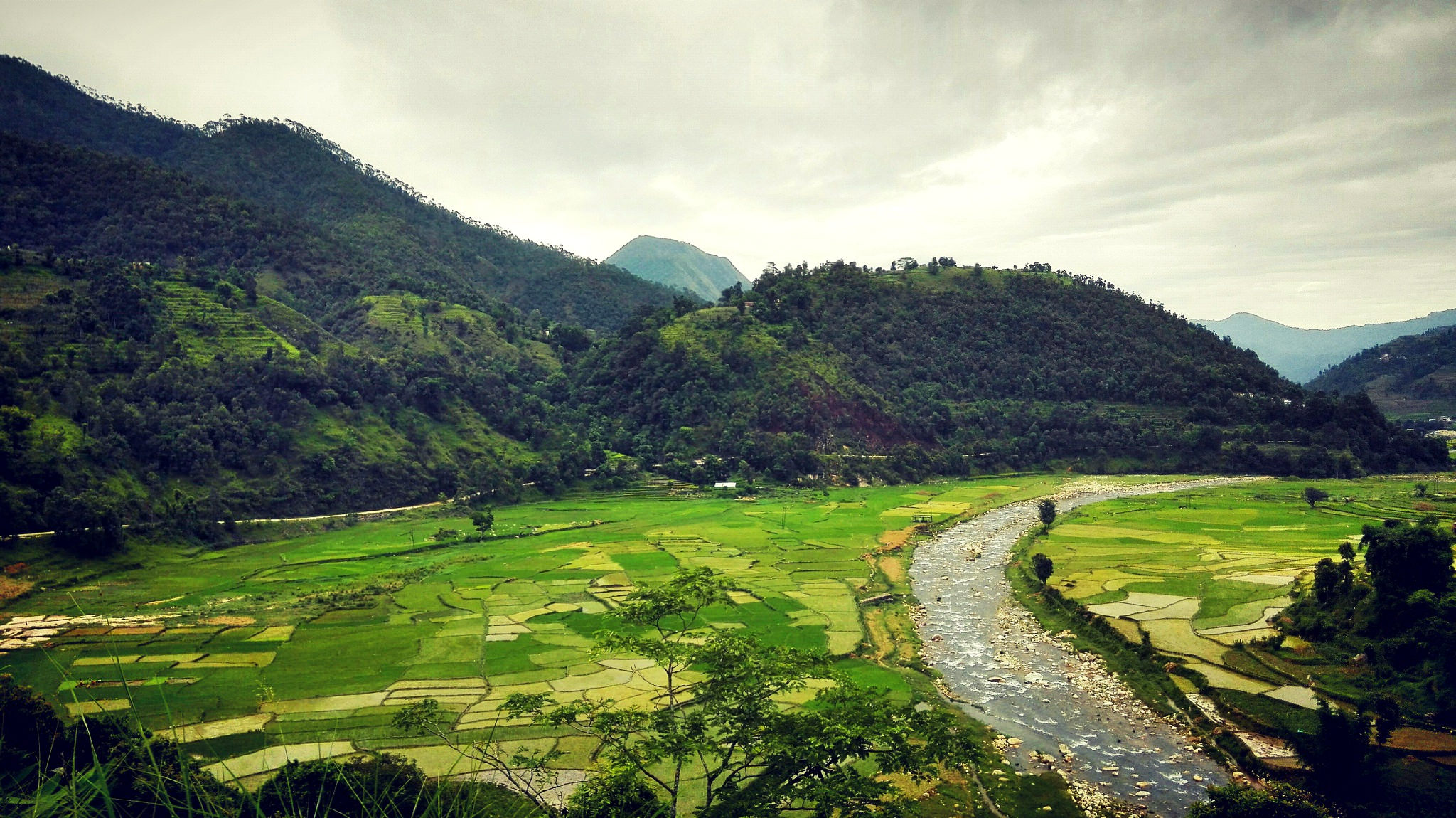 A view of green paddy fields along the Andhikhola river valley at Rangethanti. The rice is the major crop here which is still planted in traditonal way.